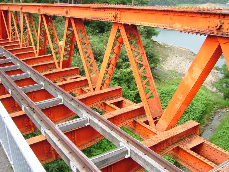 Originally from Tokyo and Kawasaki Kanagawa-pref. Built in 1909 From the Meiji Mura village museum, Japan.